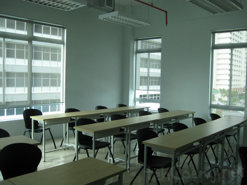 A tutorial room of Building B of the Swinburne Sarawak campus.